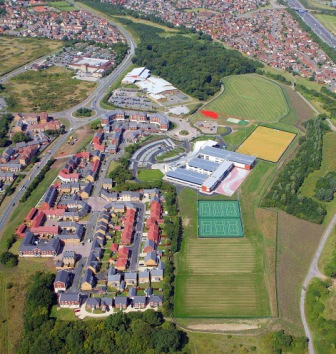 Bradley Stoke Community School. This is an aerial view of the new Bradley Stoke Community School. Towards the top of the photo is Savages Wood and in between the two is Bradley Stoke Leisure Centre. You can see Tesco's on the other side of the main road (Bradley Stoke Way).